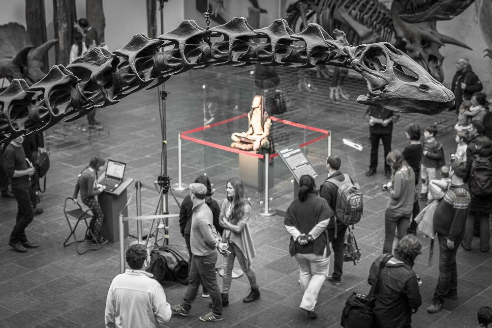 Mia Florentine Weiss Performance Senckenberg Museum